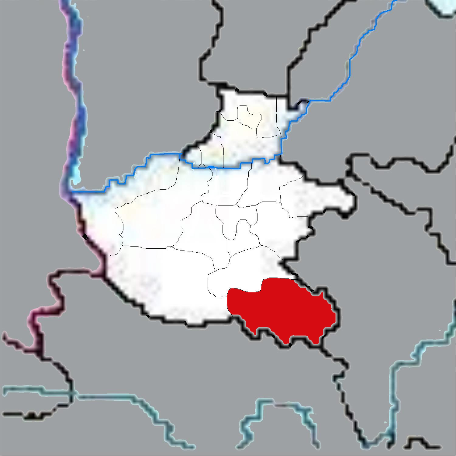 Maps of Henan Province of China